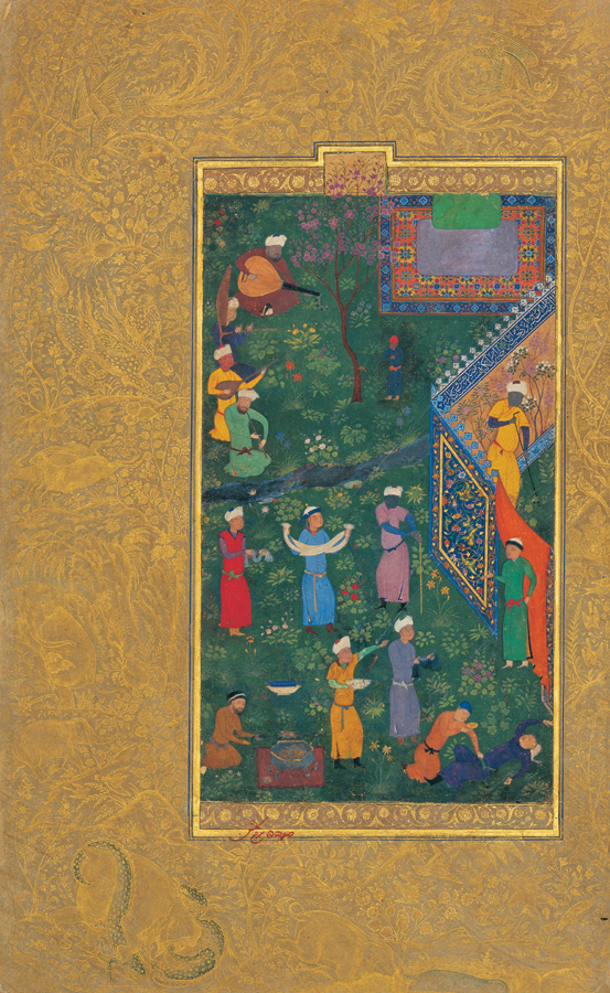 Sultan Hossein Mirza in Promenade (left part), Moraqqa’-e Golshan, p.55, conserved in Golestan Palace, Tehran, Iran.